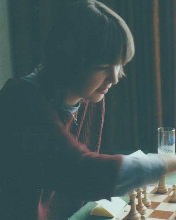 Anja Dahlgruen, 1985 at Bad Lauterberg, chess zonal tournament for women.